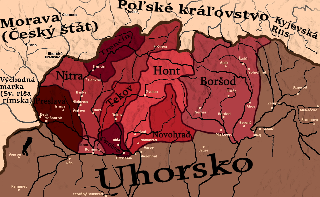 Comitates (župy) in Principality of Nitra